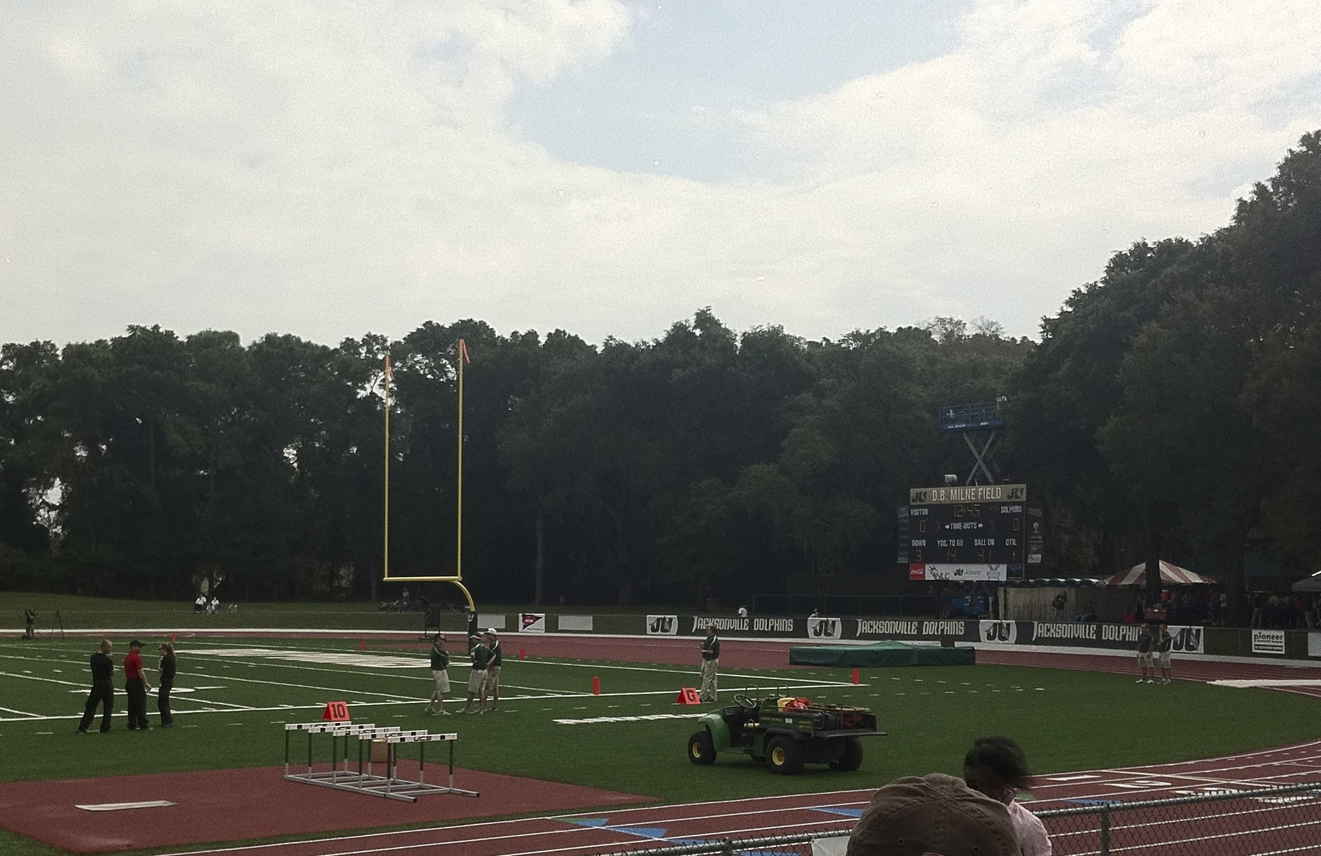 D. B. Milne Field on the campus of Jacksonville University in Jacksonville.